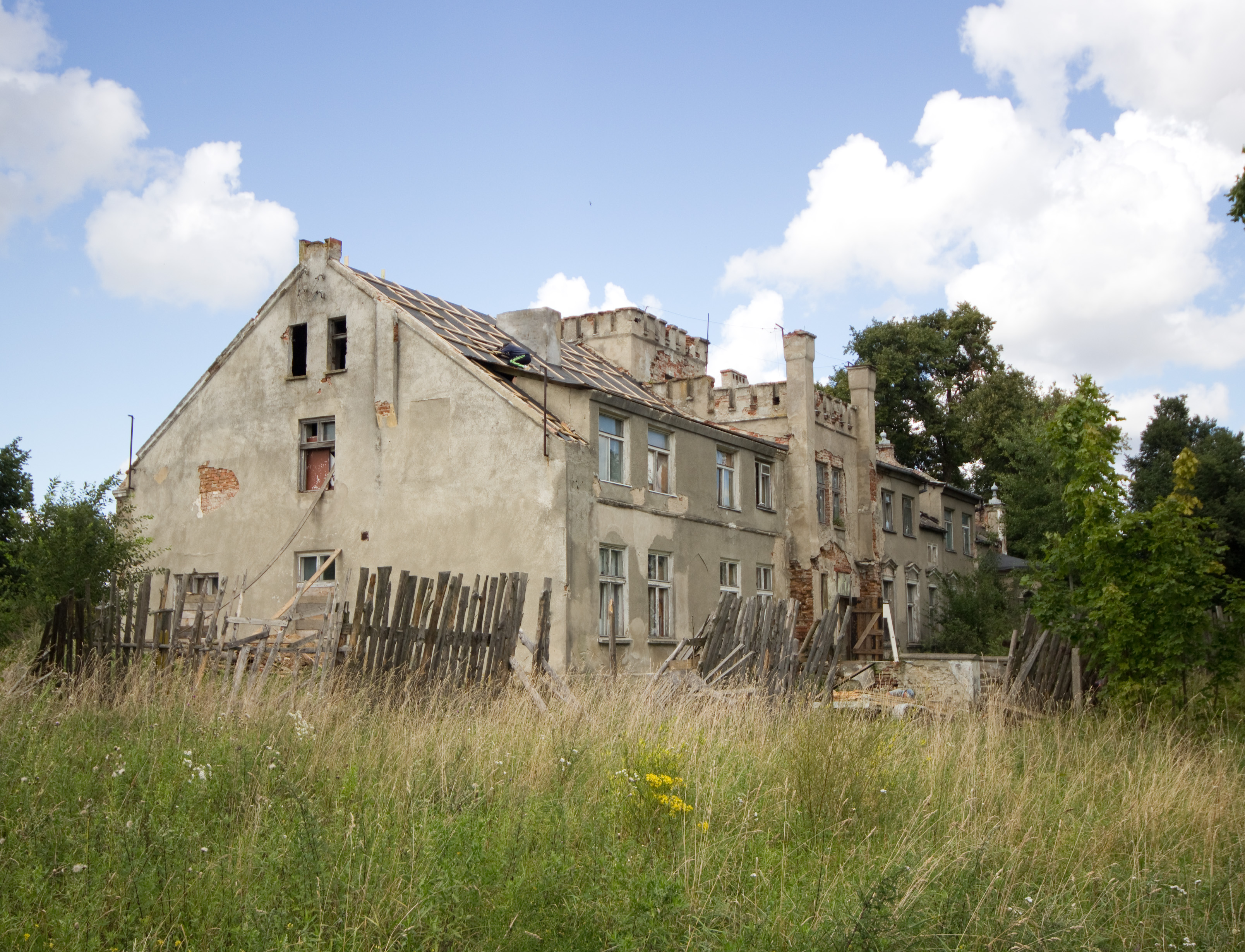 Manor house, Stachowizna, gmina Kętrzyn, powiat kętrzyński, Warmian-Masurian Voivodeship